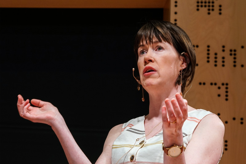 Linda Boström Knausgård at LitteratureXchange Festival in Aarhus (Denmak 2019)